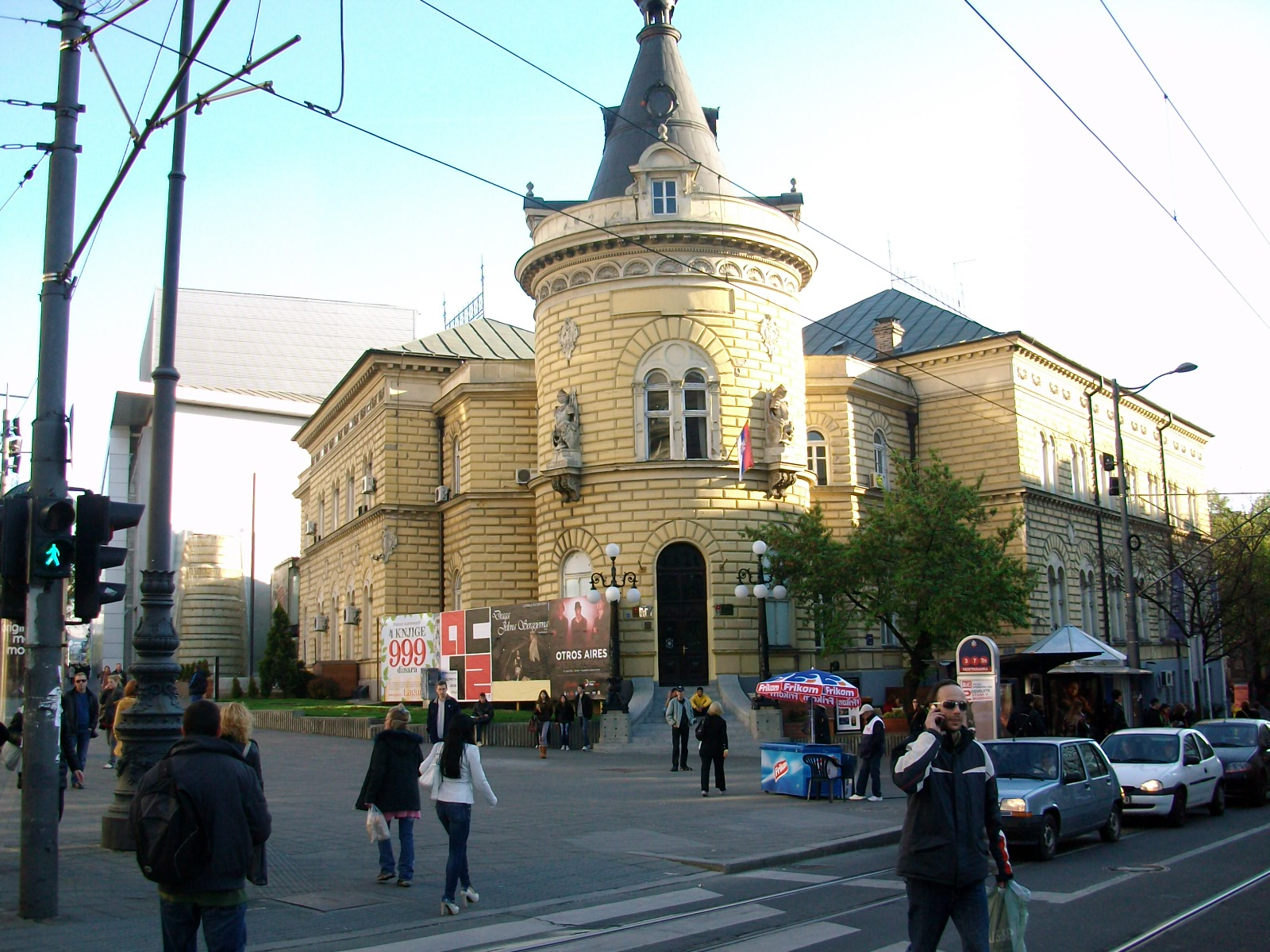 Officers home